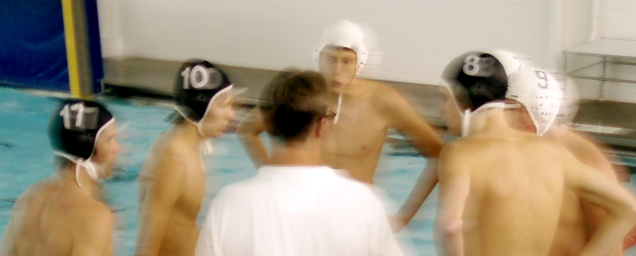 A water polo captain meeting